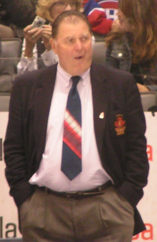 Pete Mahovlich coached Montreal Canadiens Alumni at the Legends Clasic in Toronto